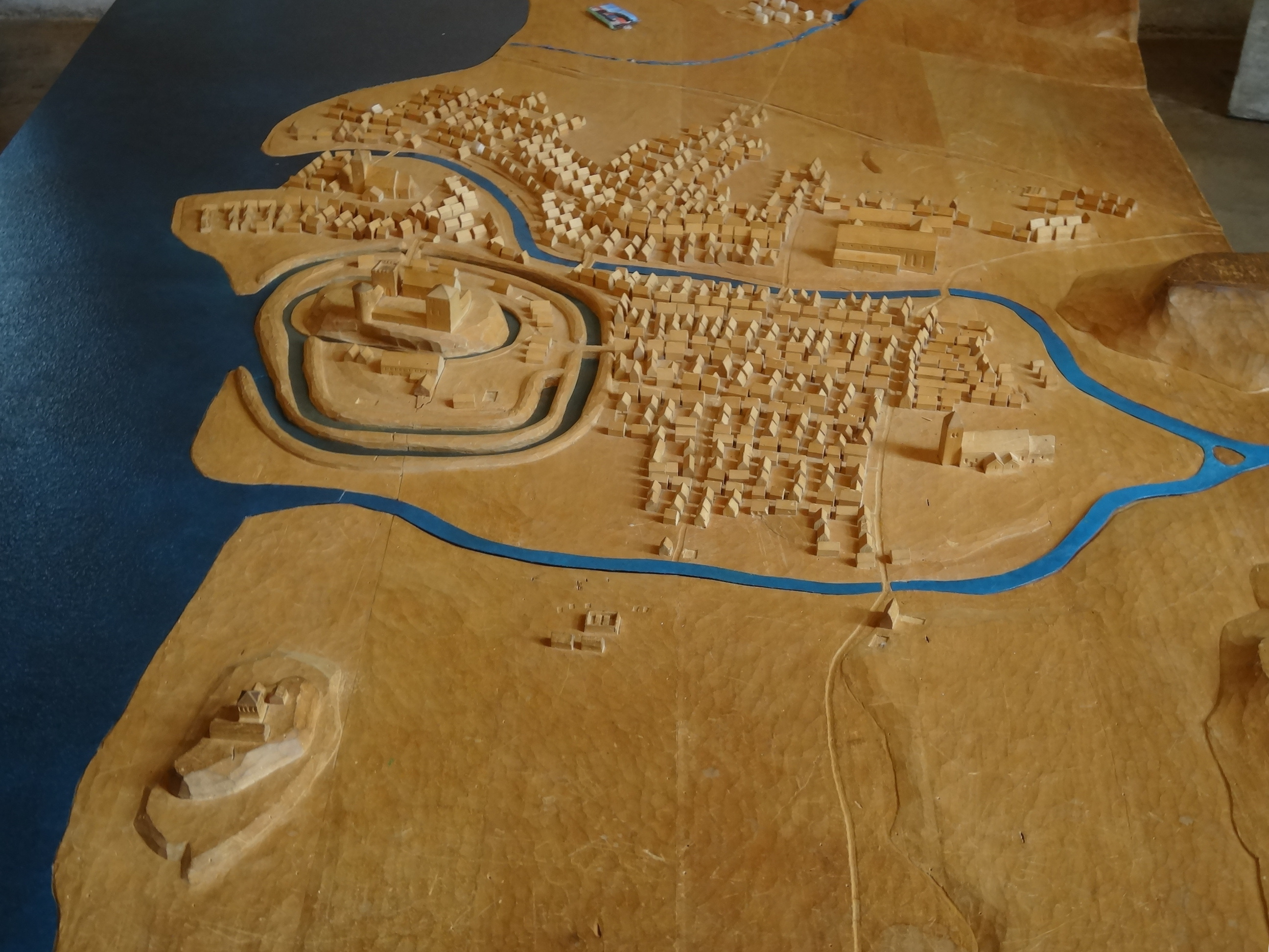 The swedish town Lödöse, viewed from south, at 1300 A.D. Wood relief located in Lödöse Museum, Sweden.